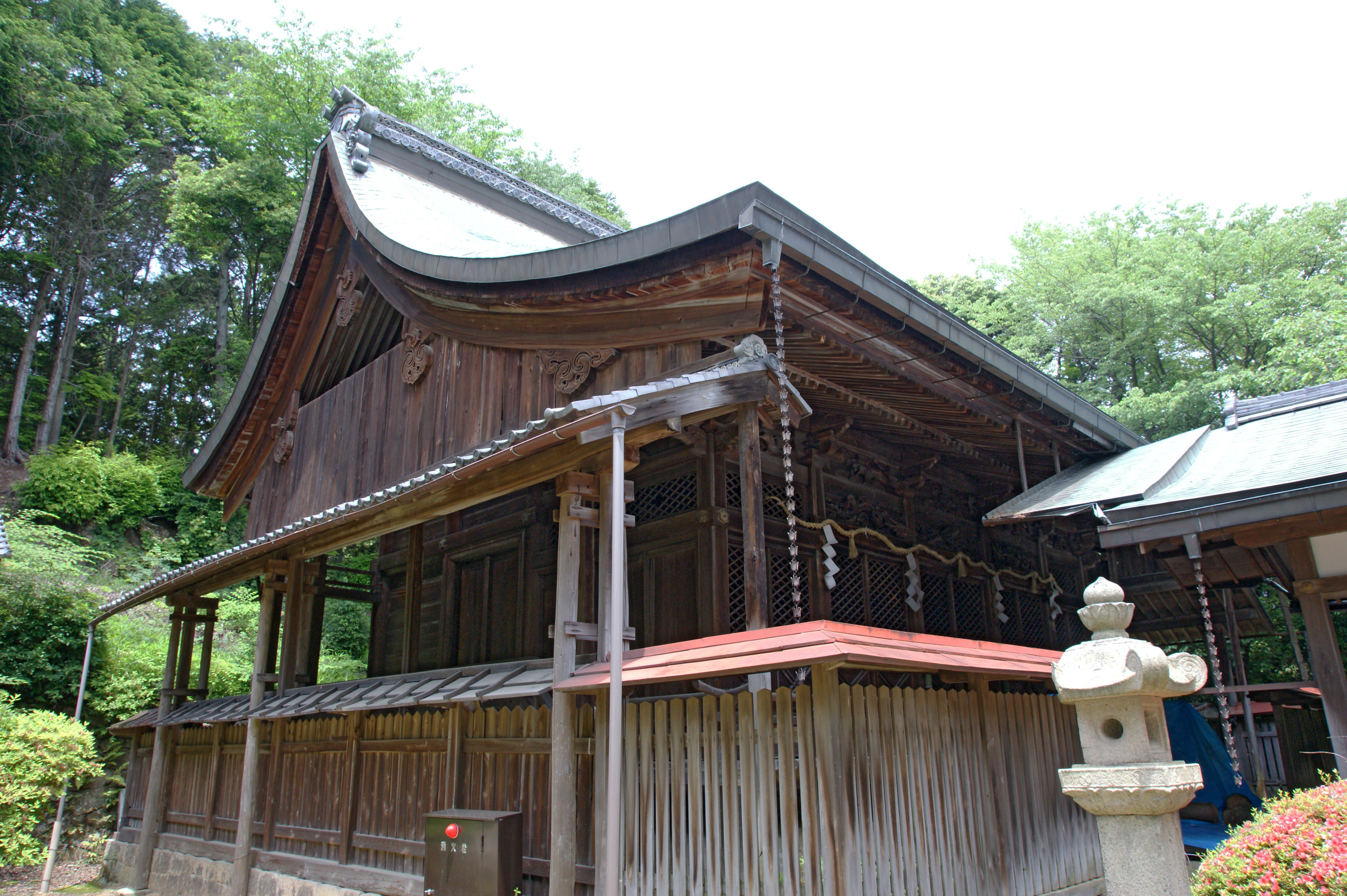 Sakatokejinja in Oyamazaki-cho, Otokuni-gun, Kyoto prefecture, Japan